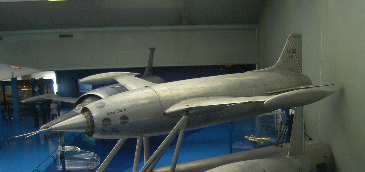 French experimental aircraft (Leduc 010)